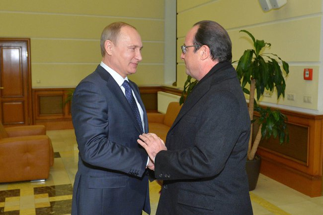 François Hollande, President of France and Vladimir Putin, President of the Russian Federation. Moscow, 6 dec 2014.